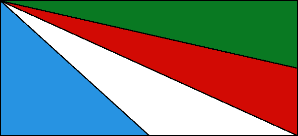 Flag of Jardin America, Misiones Province, Argentina. Source: Journalist Horacio Cambeiro.